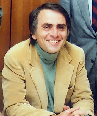 Carl Sagan, from image of the Planetary Society, cropped to size